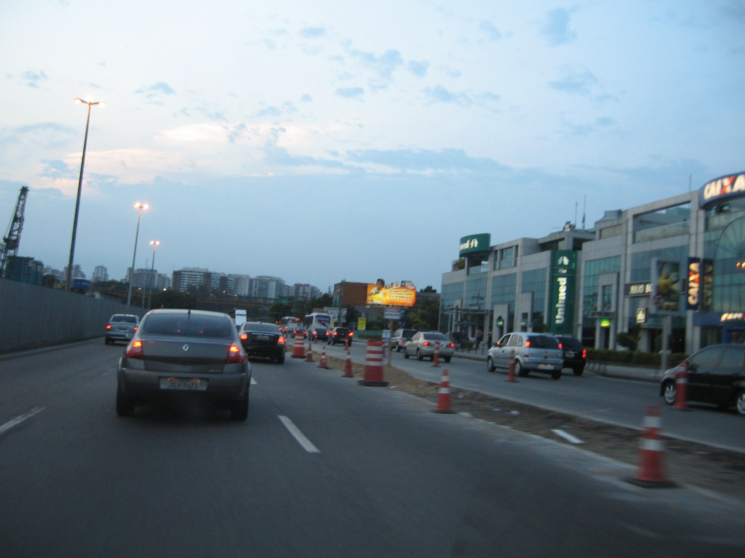 Armando Lombardi Avenue-Rio de Janeiro-Brazil